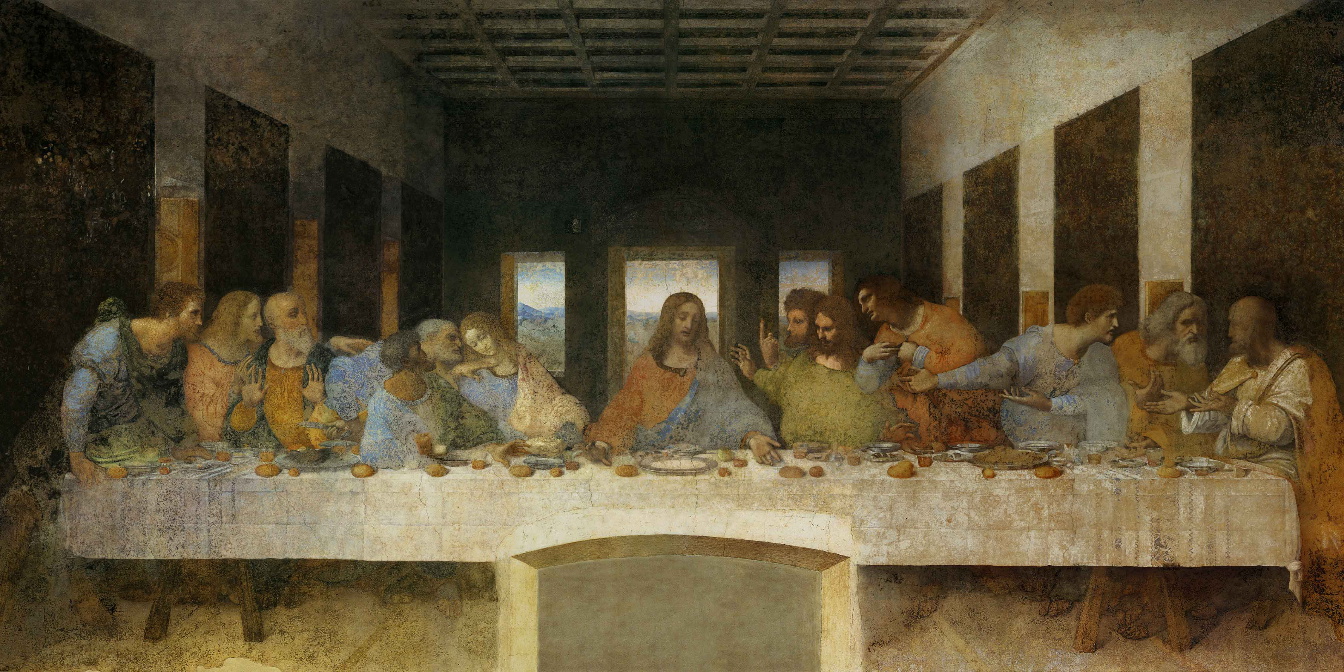 The Original Last Supper by Leonardo Da Vinci